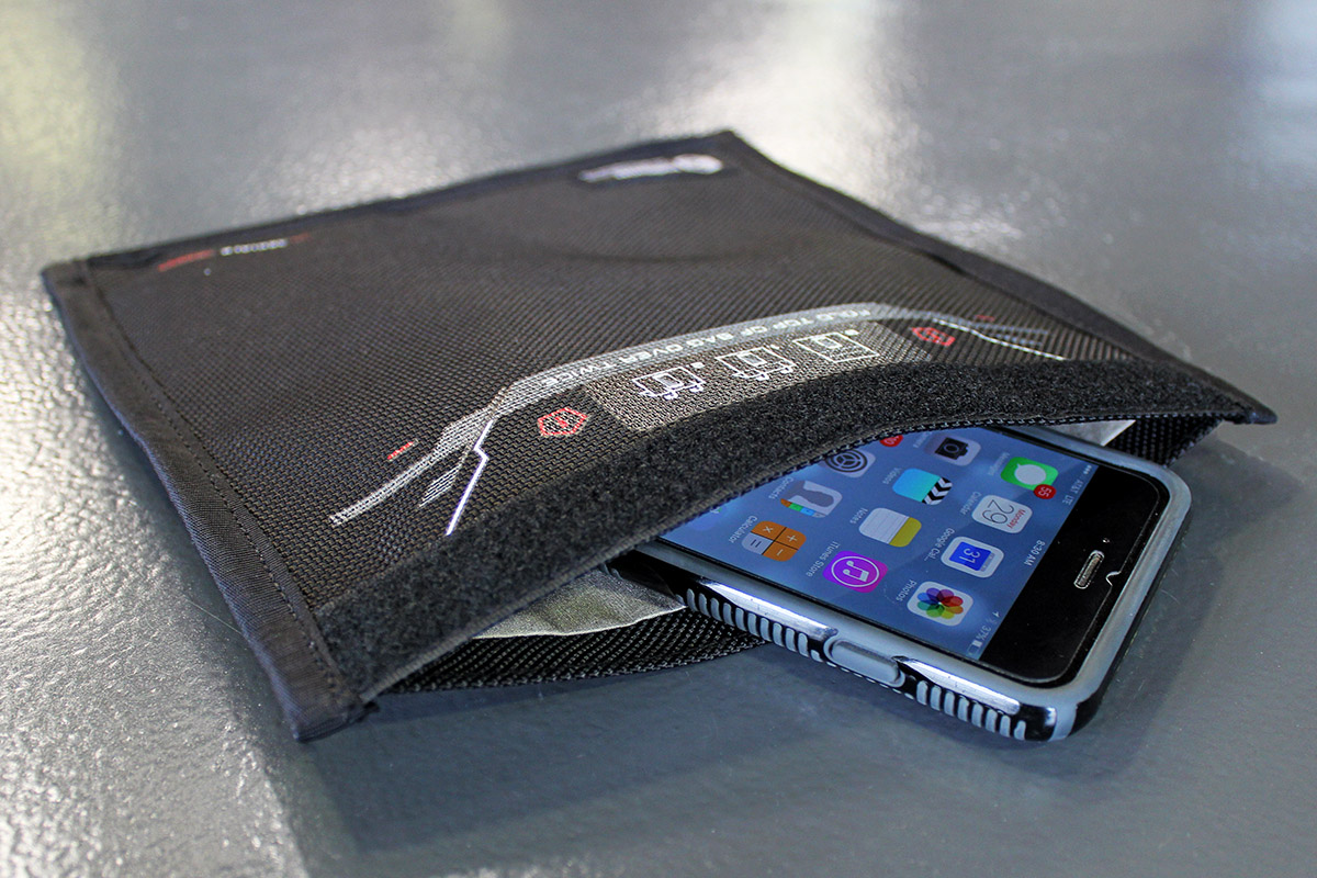 Faraday bags are a type of faraday cage made of flexible metallic fabric. They are typically used to block remote wiping or tampering of wireless devices recovered in criminal investigations, but may also be used by the general public to protect data or enhance privacy.